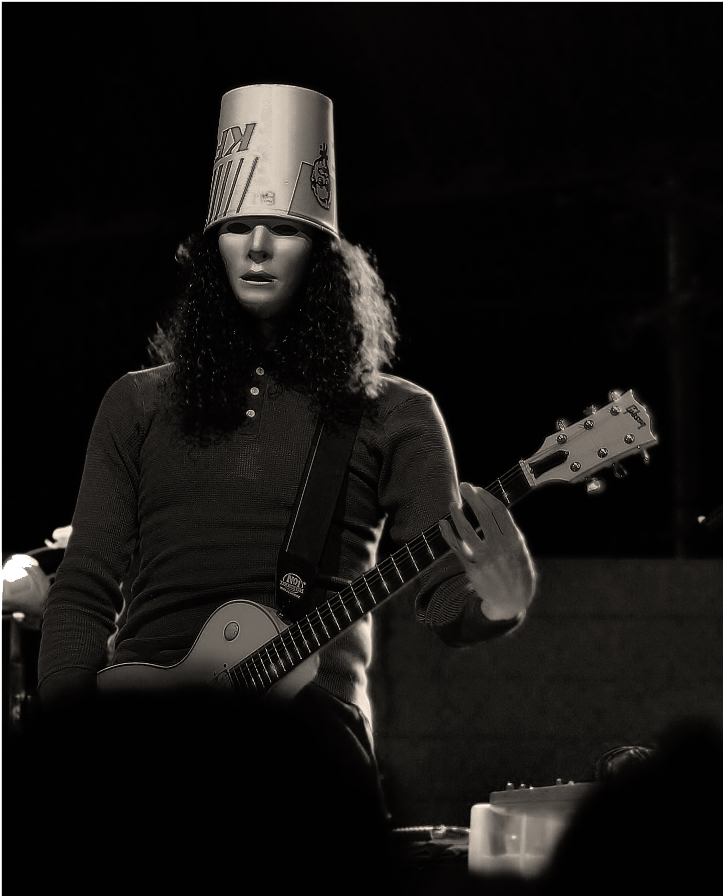 Buckethead performing at NYS Fair 2011 in Syracuse